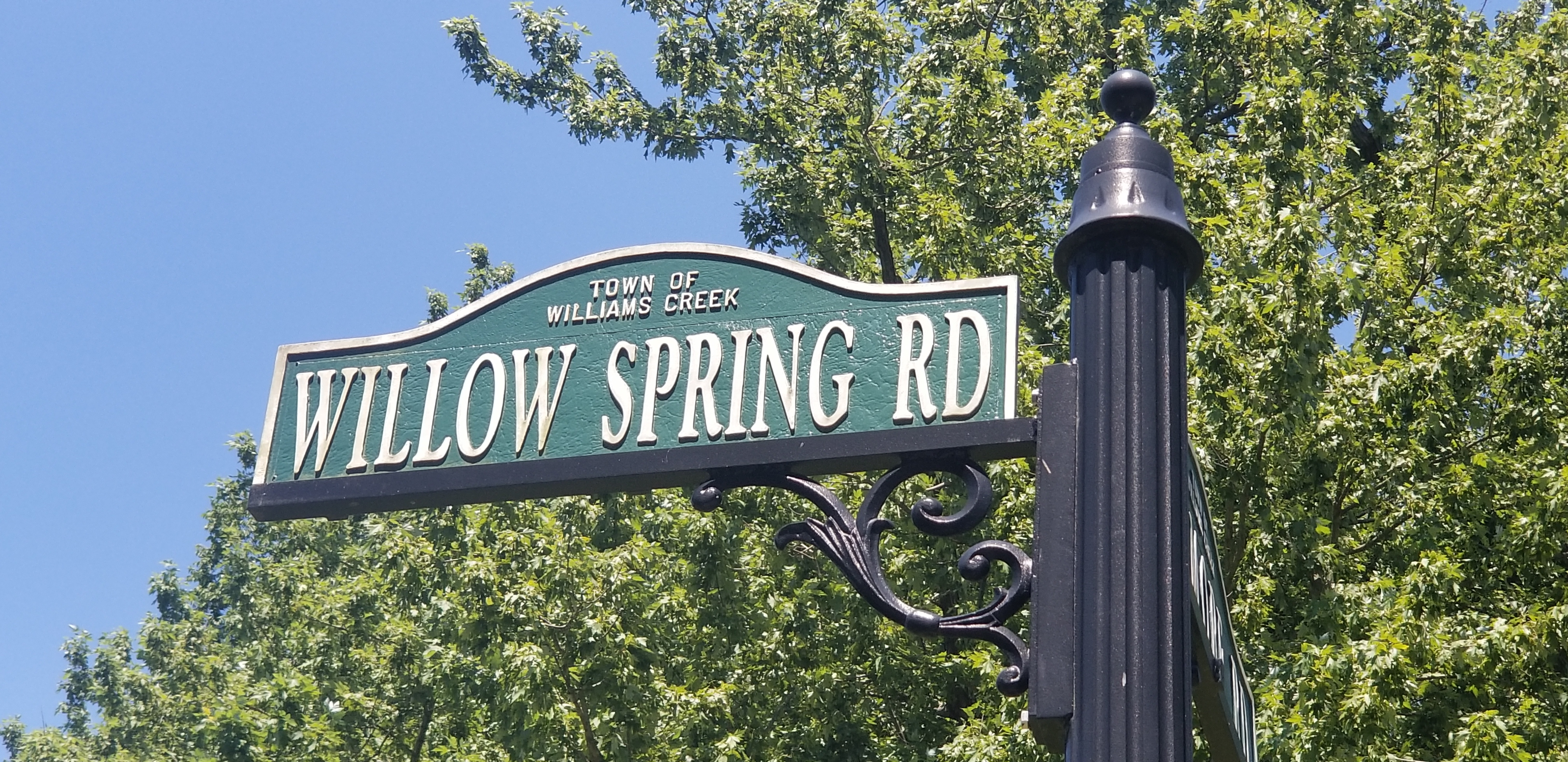 A Street sign in Williams Creek, Indiana, indicating one is on Willow Spring Road.